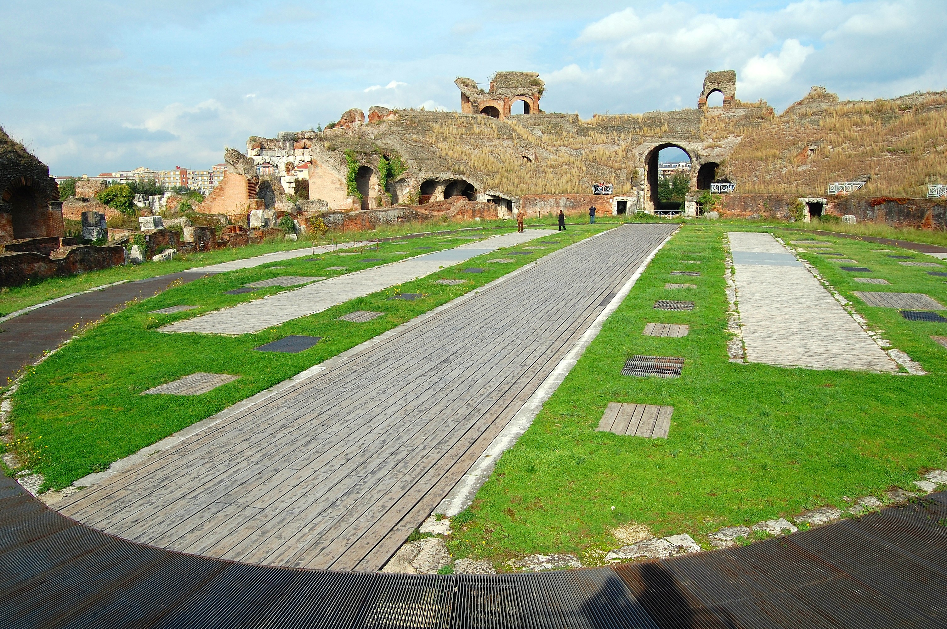 Inside the amphitheater of Santa Maria Capua Vetere